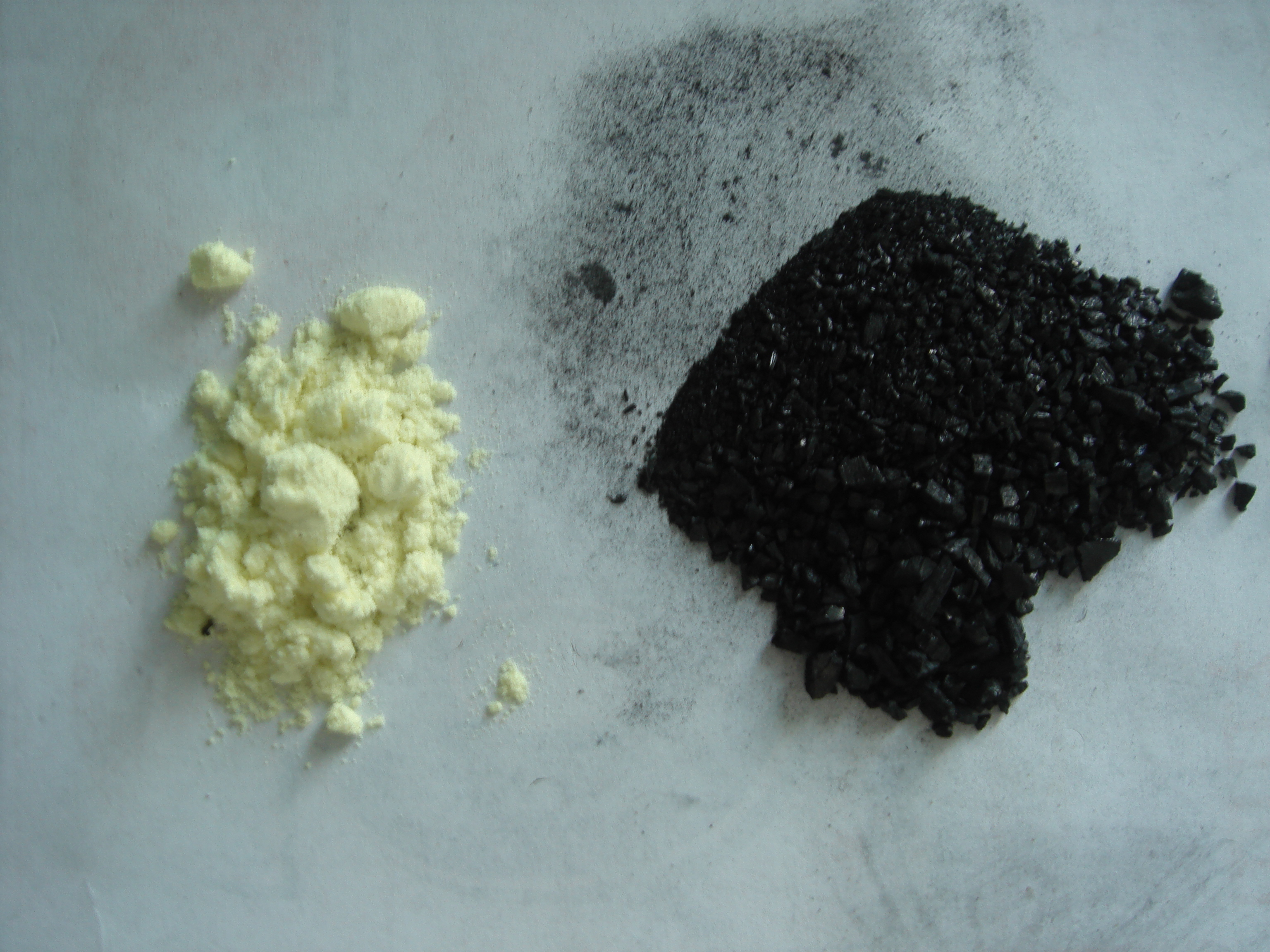 Sulfur and carbon